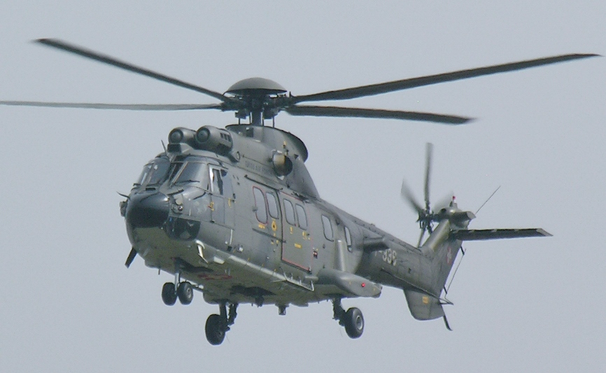 Germany, Baden-Württemberg, (cropped & colored version) Eurocopter Cougar T-336 of the Swiss Air Force at the air show in Hilzingen 2006